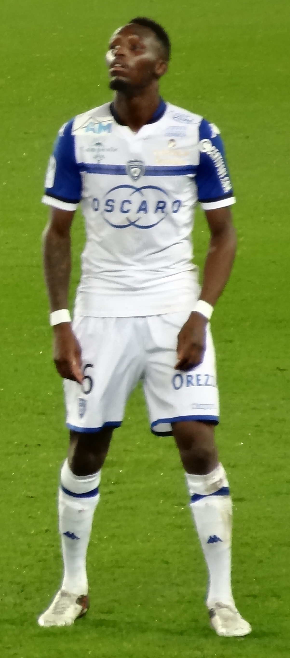 Seko Fofana (SC Bastia)